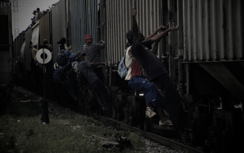 Migrants riding outside a freight train in Mexico